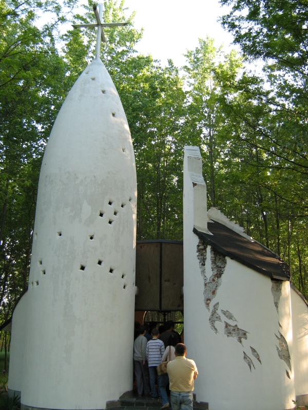 Saint John Capistrano chapel